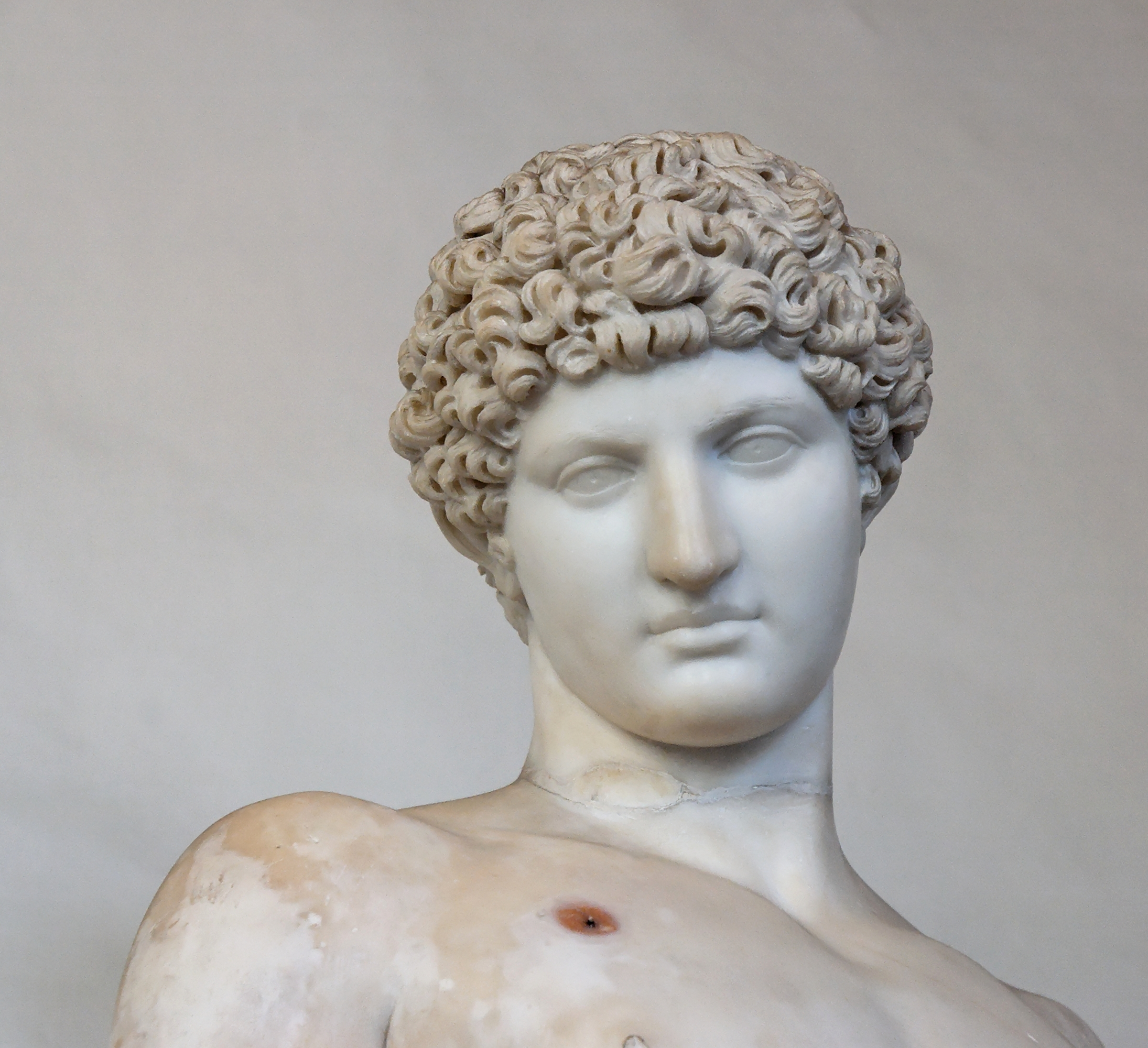 Statue of Antinoos. Marble, Roman copy (2nd century AD) of a Greek statue representing Hermes (4th century BC).